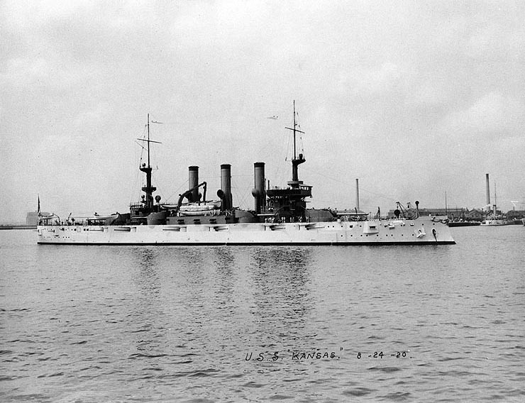 USS Kansas (BB-21) Photographed soon after completion, circa 1907.